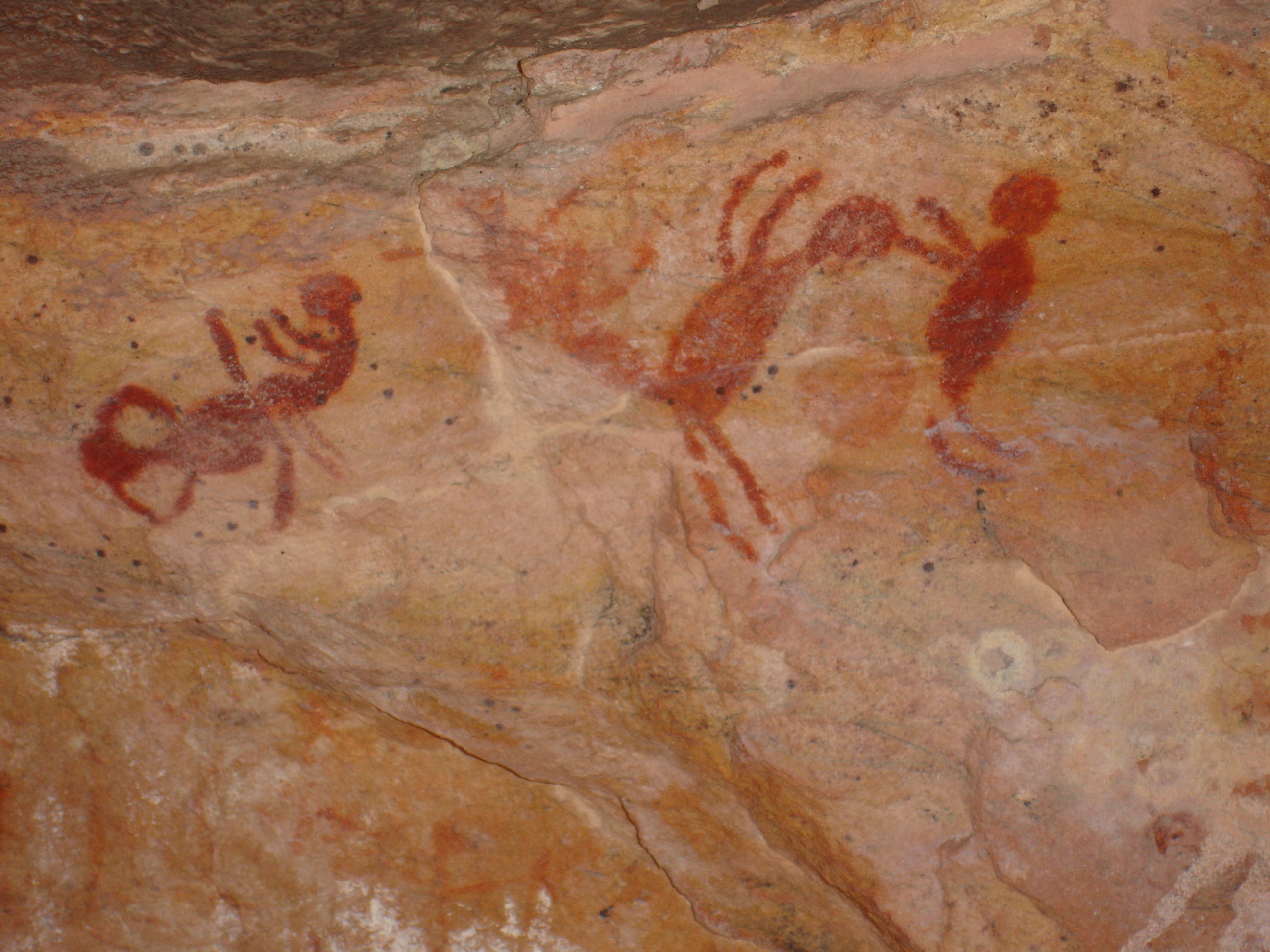 A mural painting. The scene on the left is normally interpreted as a woman giving birth.